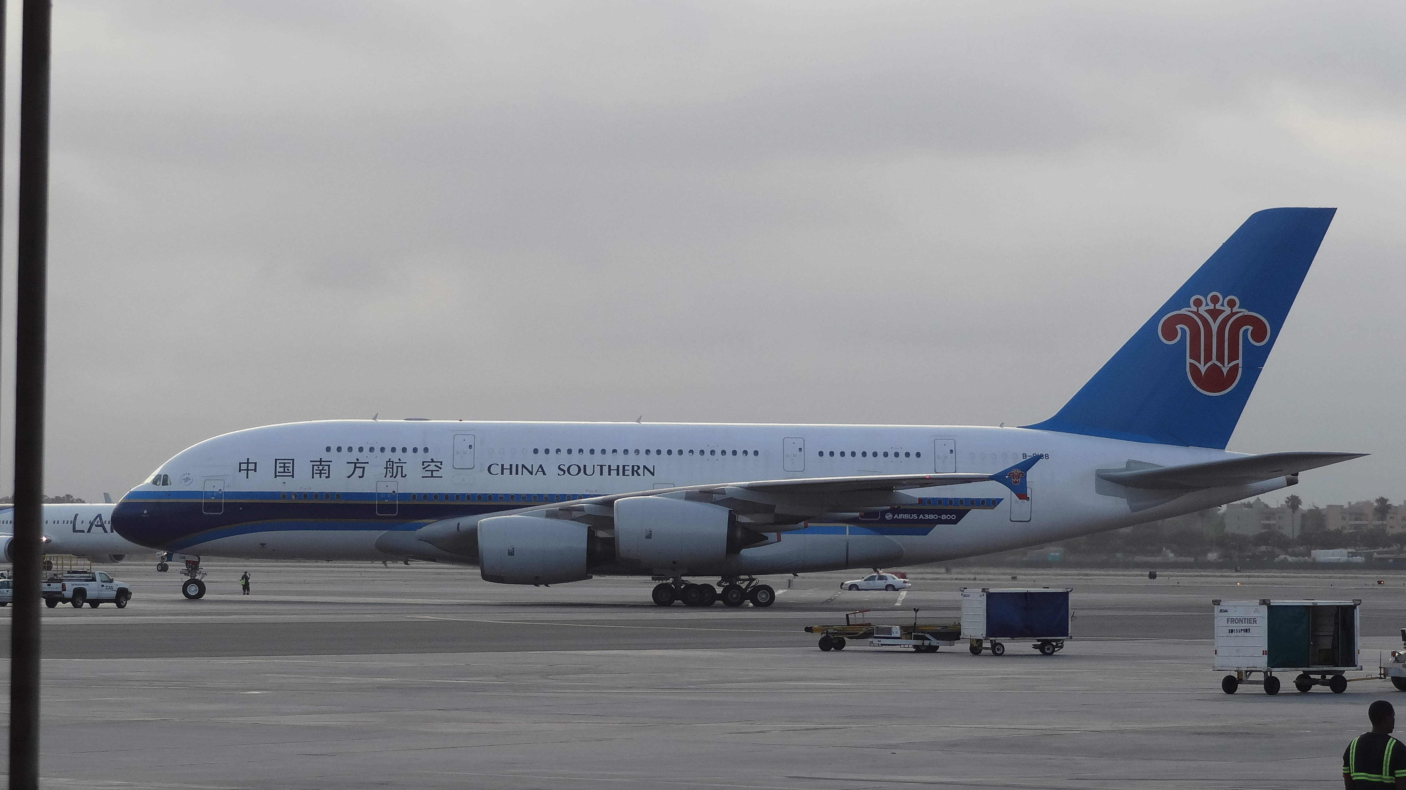 China Southern A380 landing in LAX.